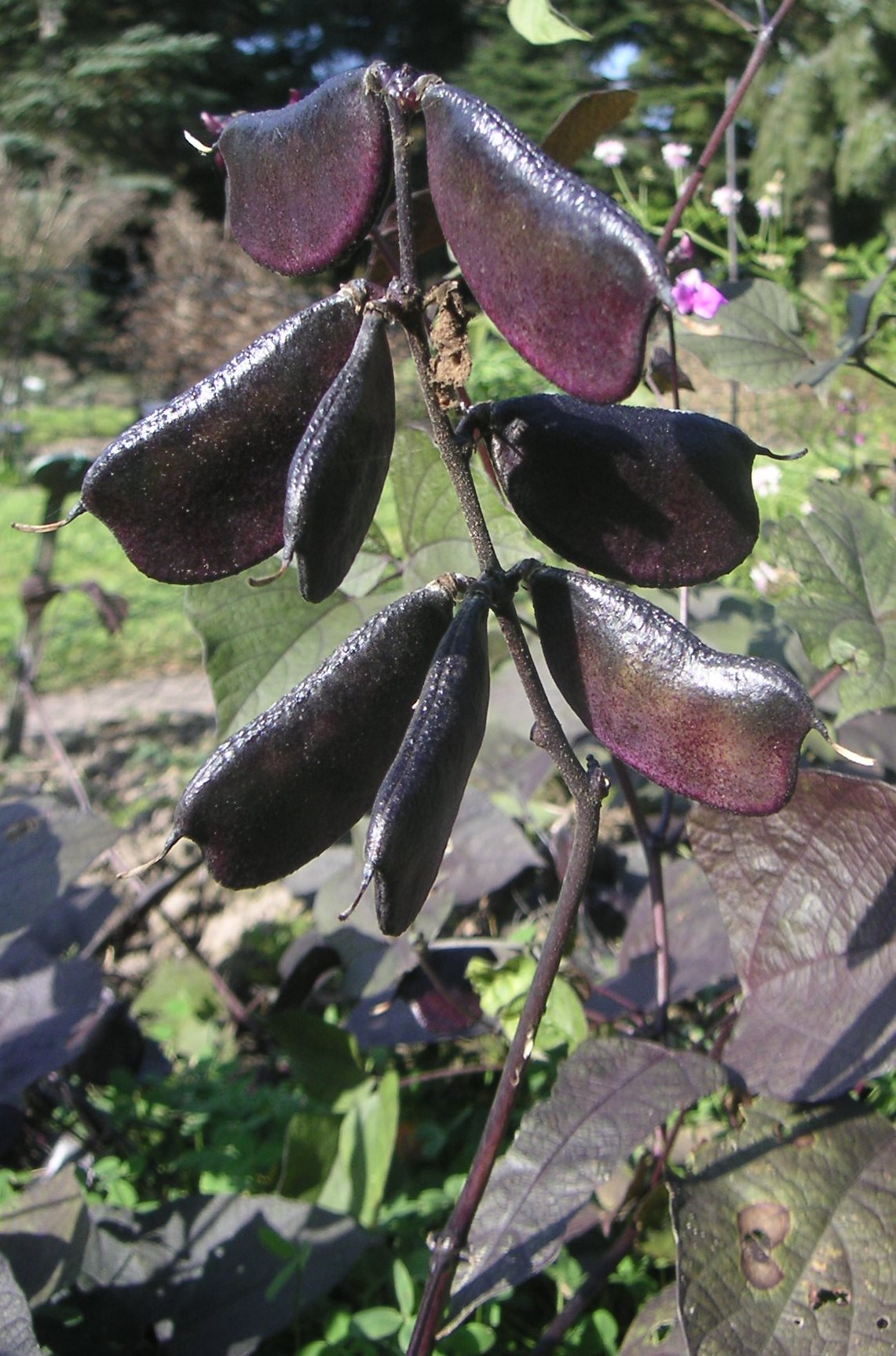 Fruits of Lablab purpureus at Botanical Garden Krefeld, Germany.